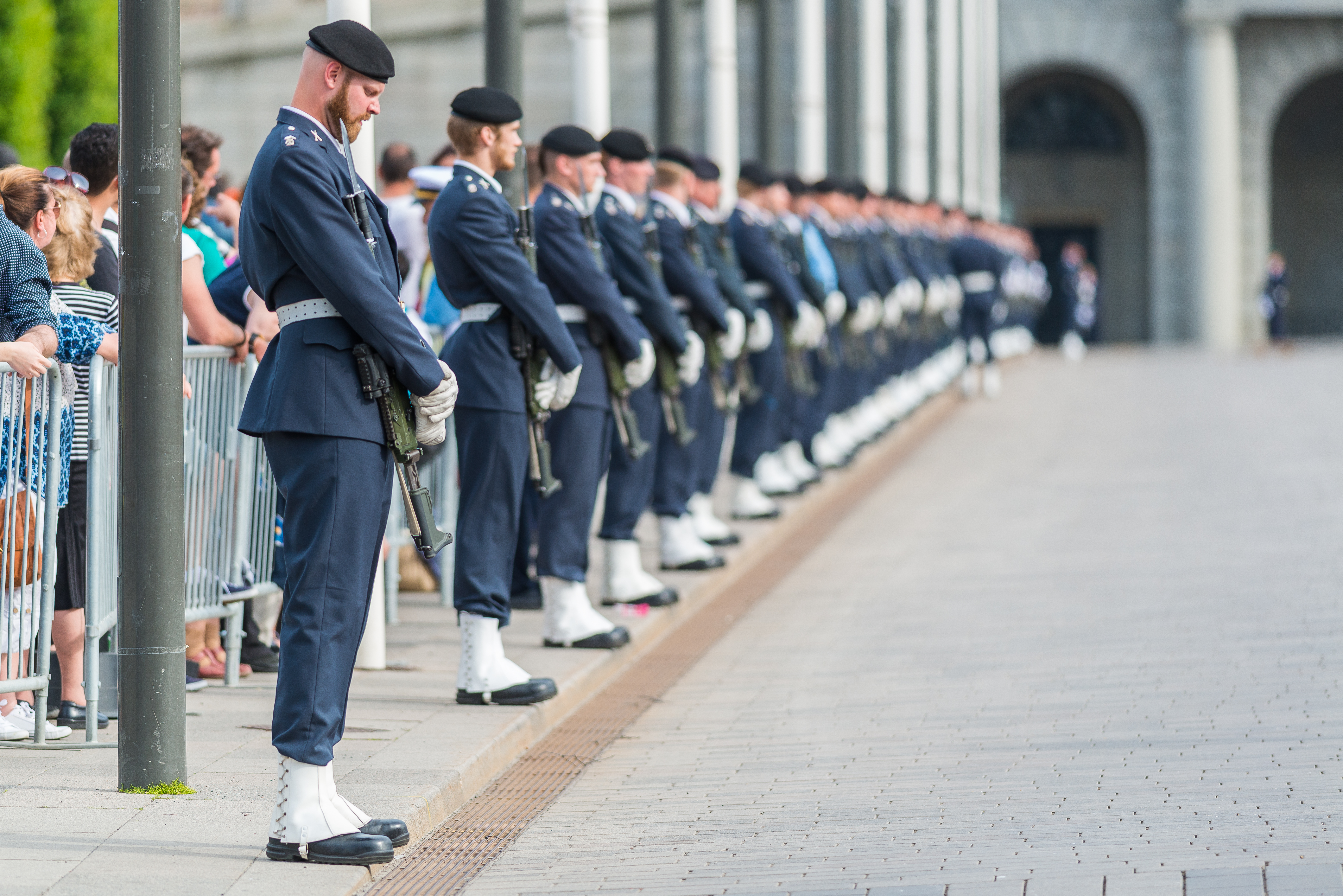 Prince Carl Philip and Princess Sofia wedding cortege 13 June 2015